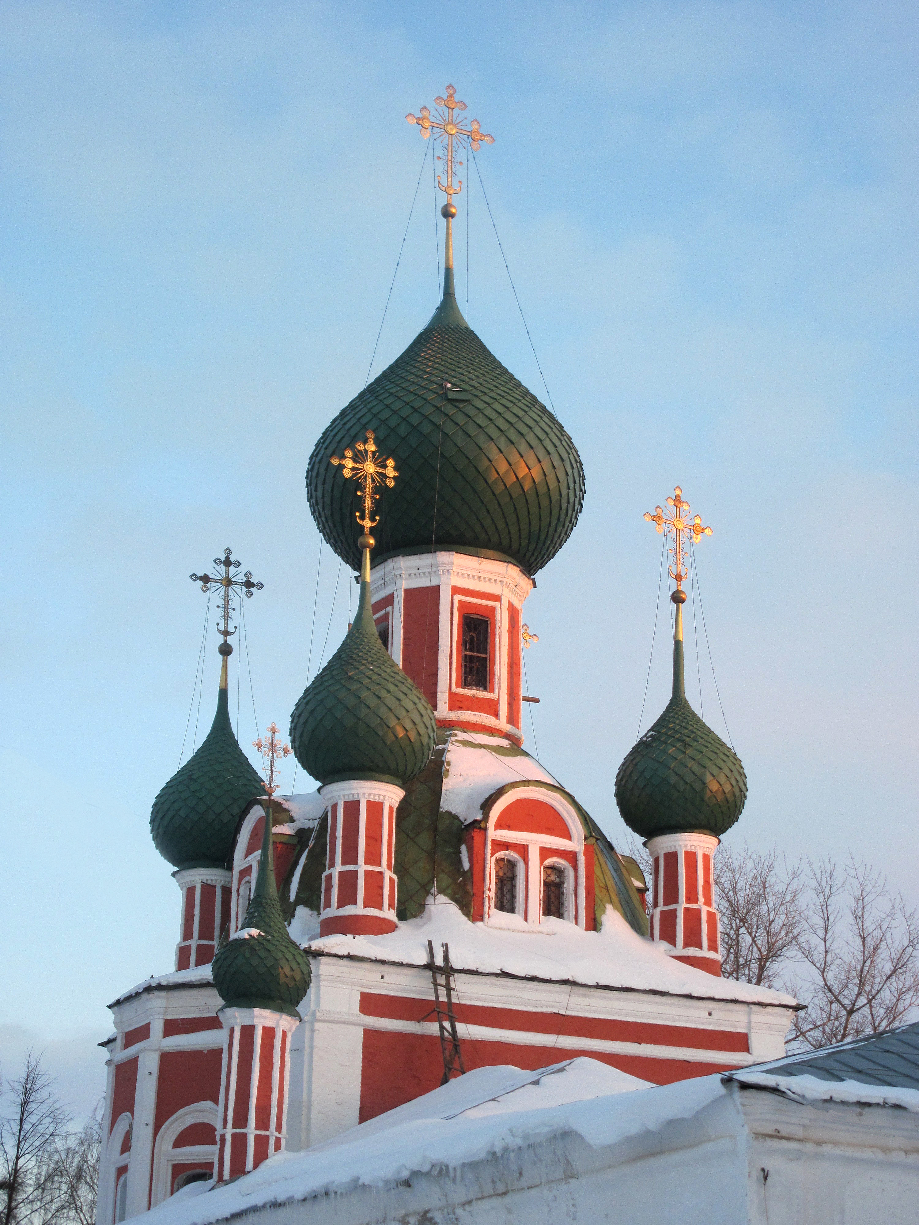 A Church in Pereslavl-Zalessky